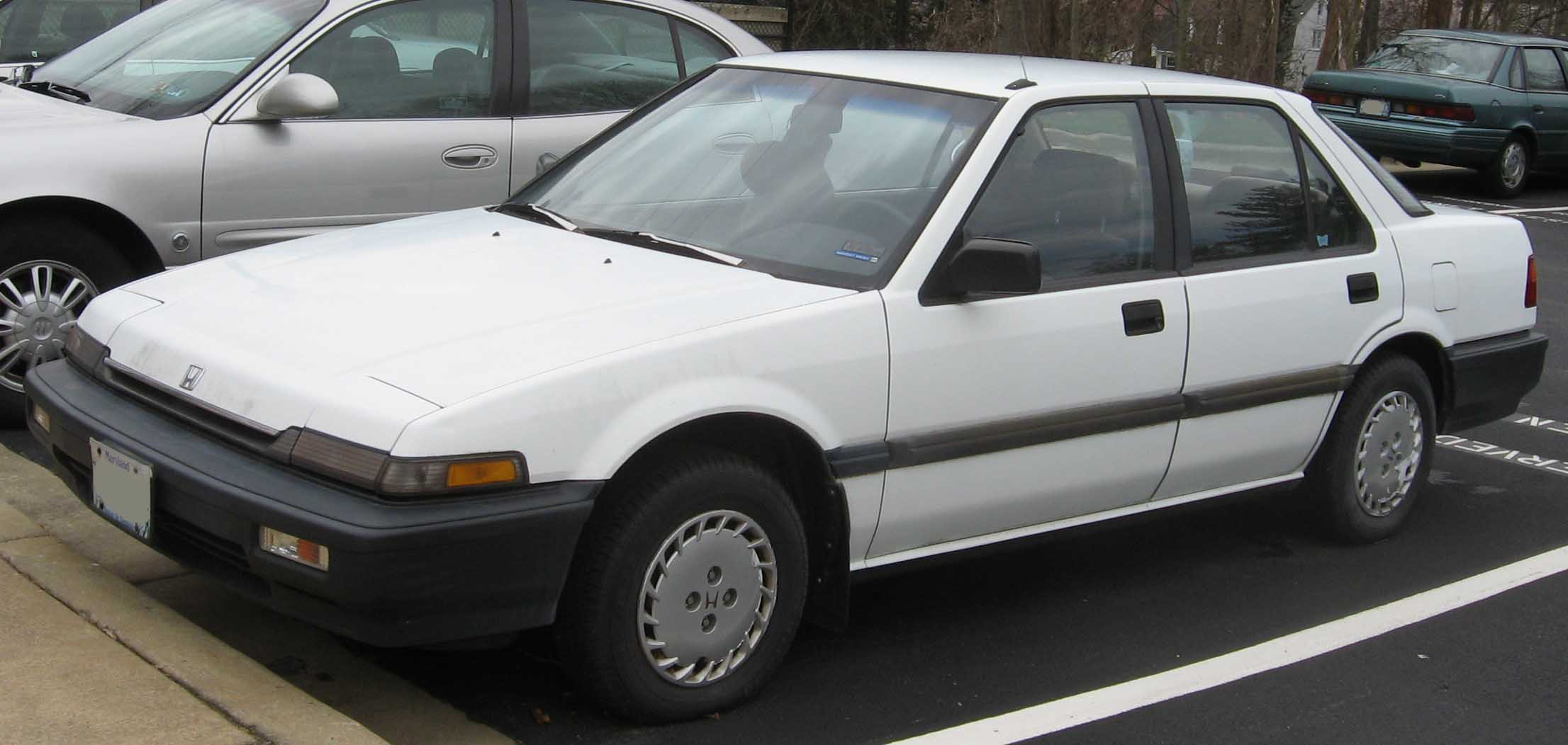 1986-1989 Honda Accord photographed in Kensington, Maryland, USA.